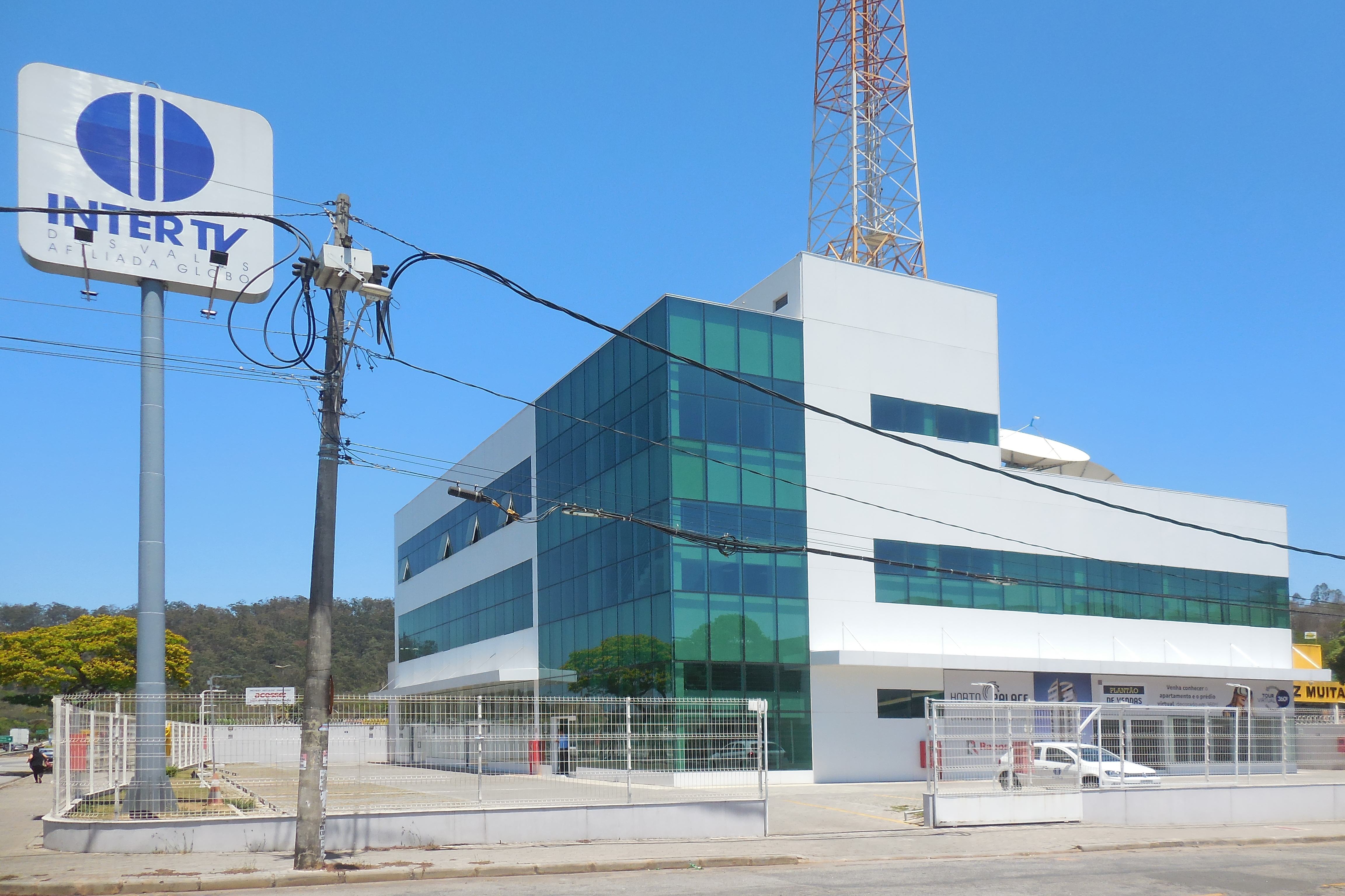 InterTV dos Vales in Ipatinga, Minas Gerais, Brazil.